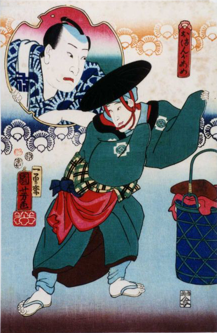 Oman ga Ame(Oman:candy peddler).Acted by Utaemon Nakamura IV. Painted by Kuniyoshi Utagawa.